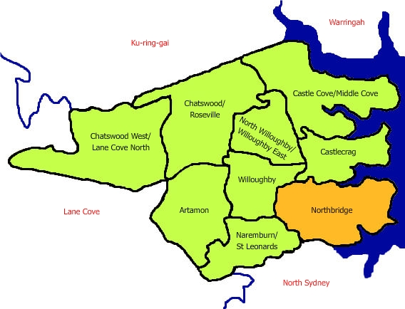 Map of Northbridge in relation to other suburbs controlled by the Willoughby Council, NSW, Australia.